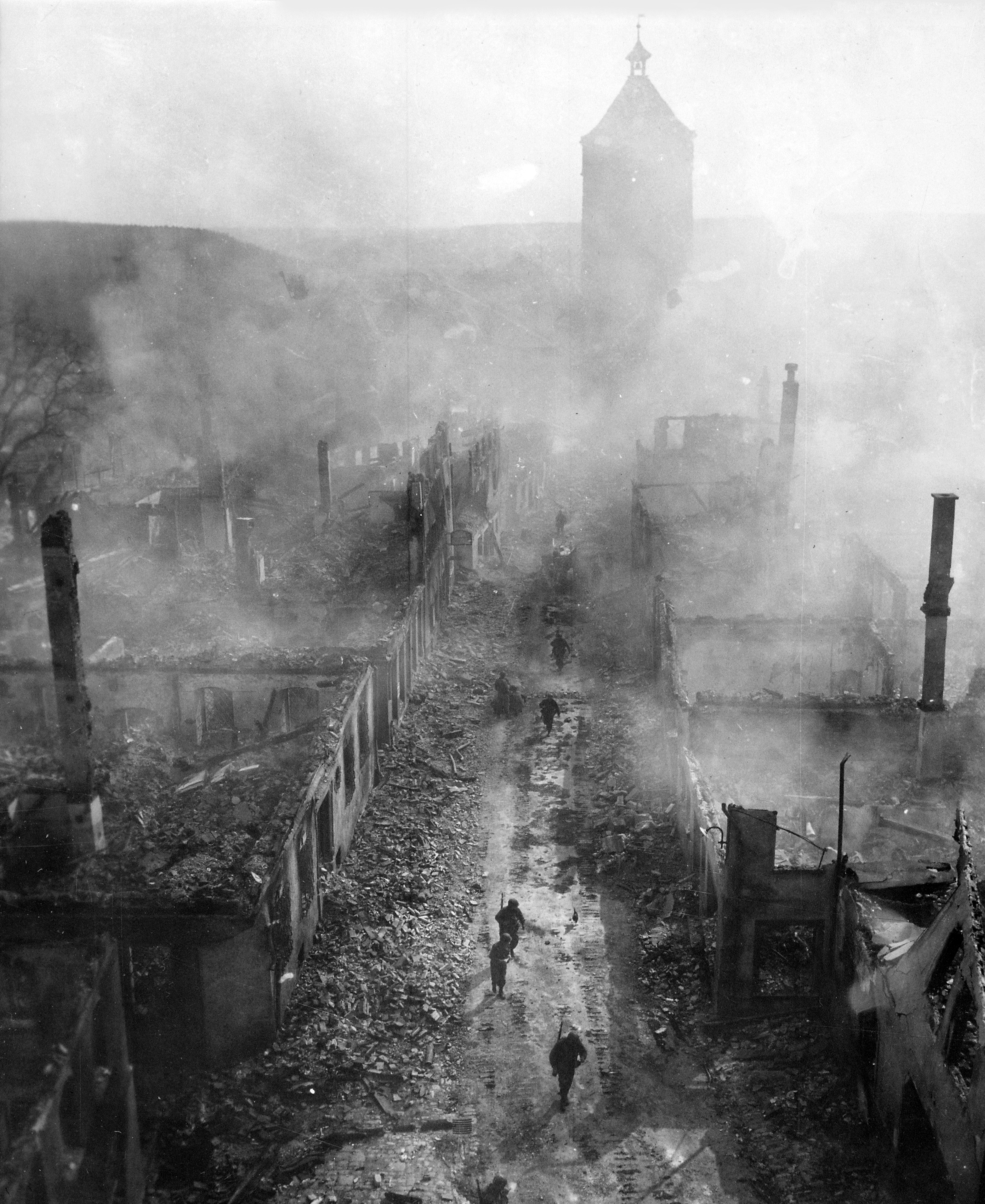 "Infantrymen of the 255th Infantry Regiment move down a street in Waldenburg to hunt out the Hun after a recent raid by 63rd Division".